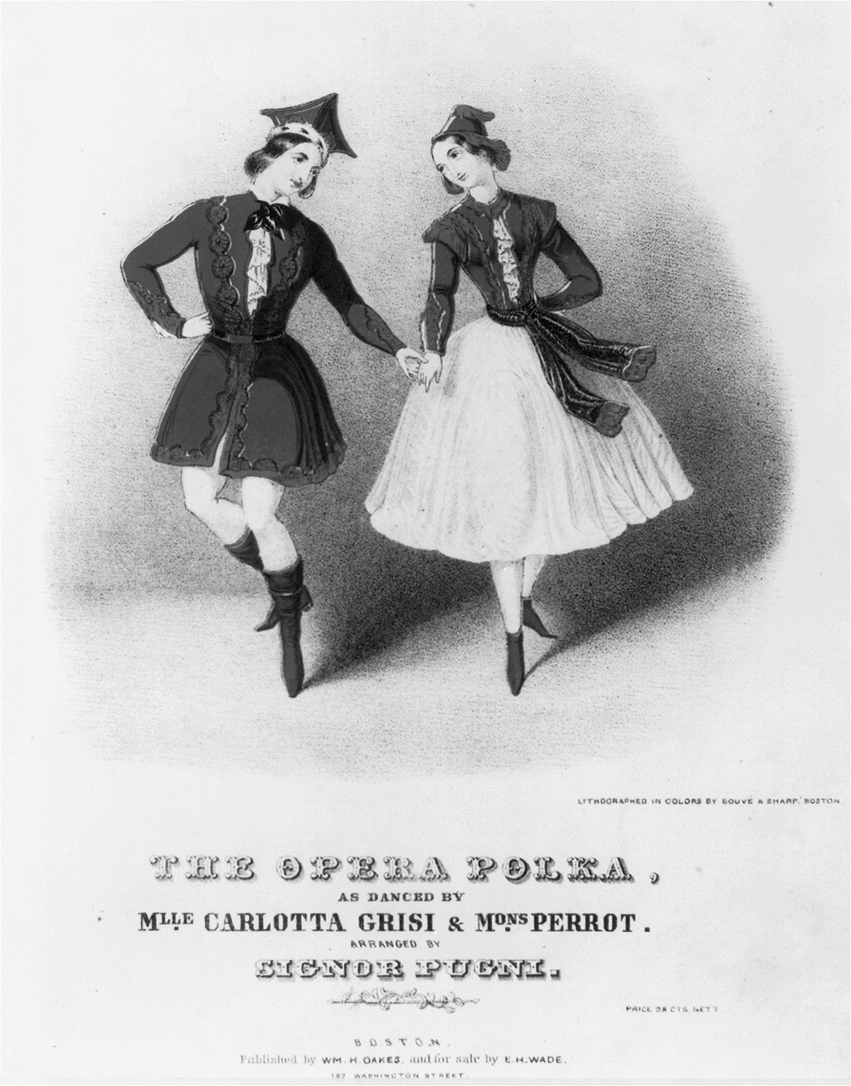 The Opera Polka as danced by Mlle. Caroltta Grisi & Mons. Jules Joseph Perrot. Lithograph by Bouvé & Sharp. REPOSITORY: Library of Congress, Prints and Photographs Division, Washington, D.C. 20540 USA